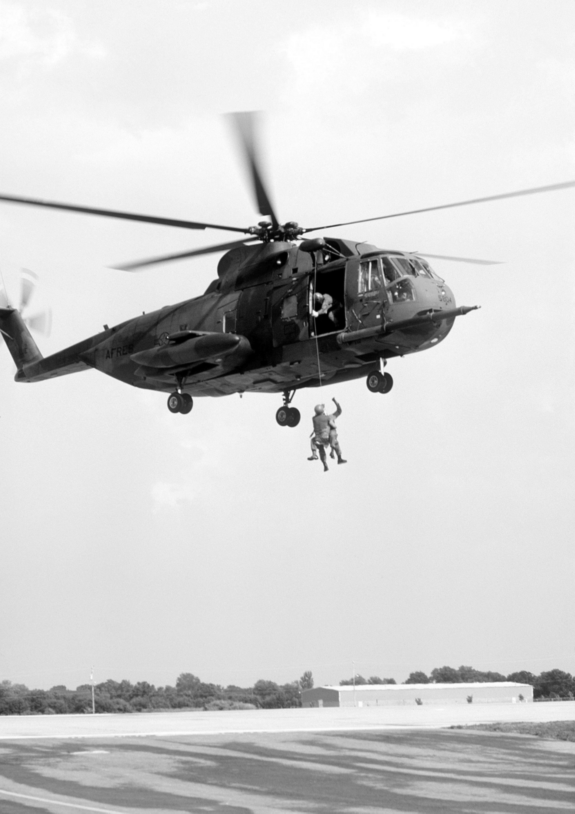 A U.S. Air Force Reserve Sikorsky HH-3E Jolly Green Giant helicopter (s/n 69-5804) hovers above the ground as two crewmen are hoisted up by a cable during the "Boy Scouts of America 1981 National Aviation Explorer Fly-In". After its retirement in 1992 this HH-3E was sold to Tunisia.